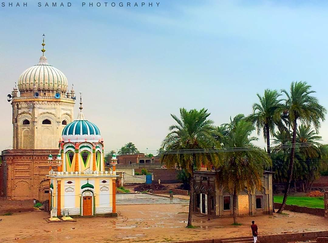 Lakhiwal sharif Tehsil Sahiwal District Sargodha